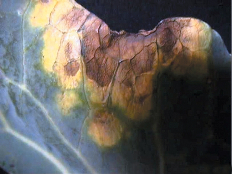 Photo of a cabbage leaf showing symptoms of black rot of cabbage